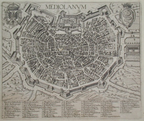 Map of Milan, 1621.